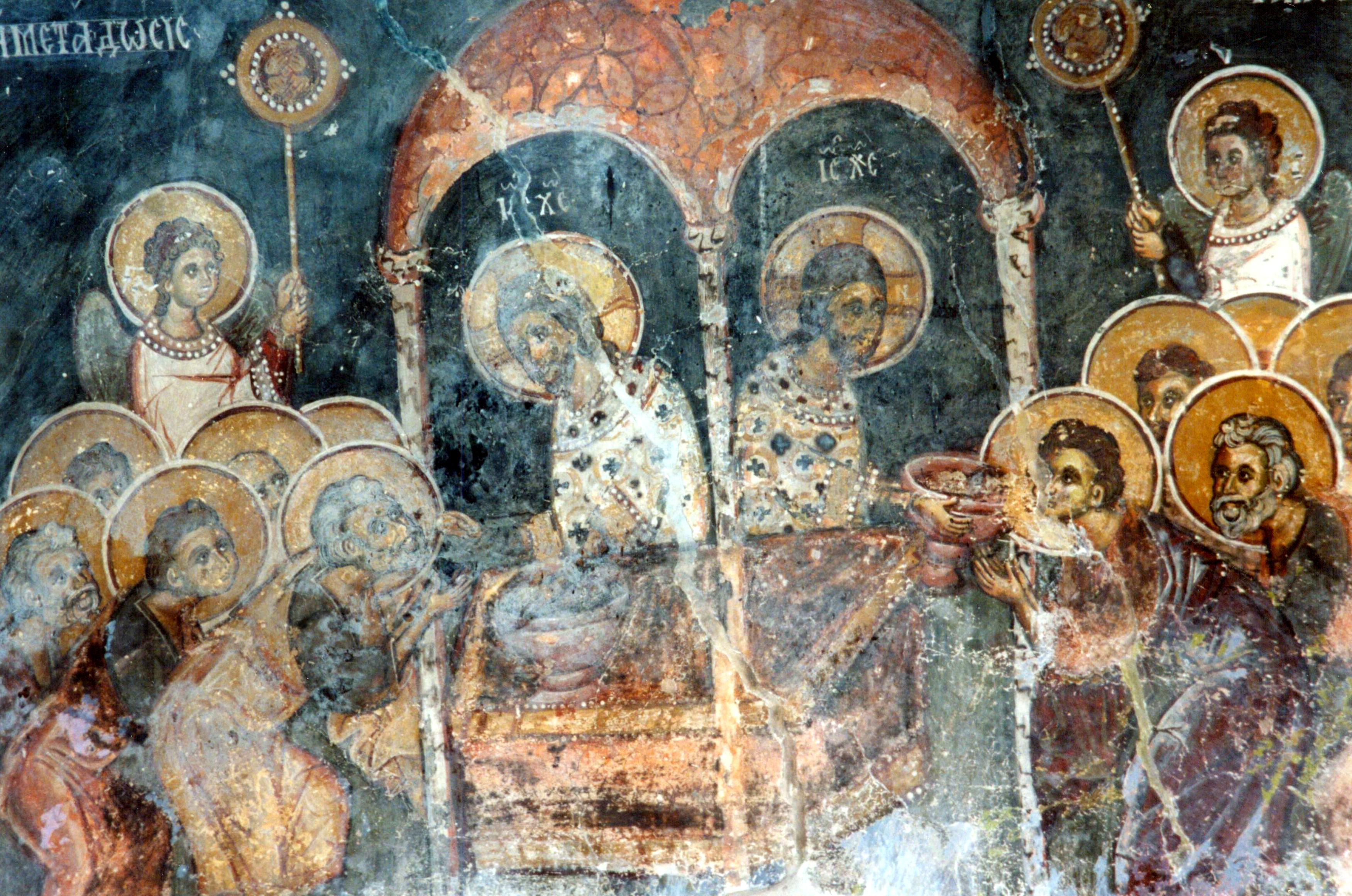 Saint Nicholas Bolnichki Church Fresco